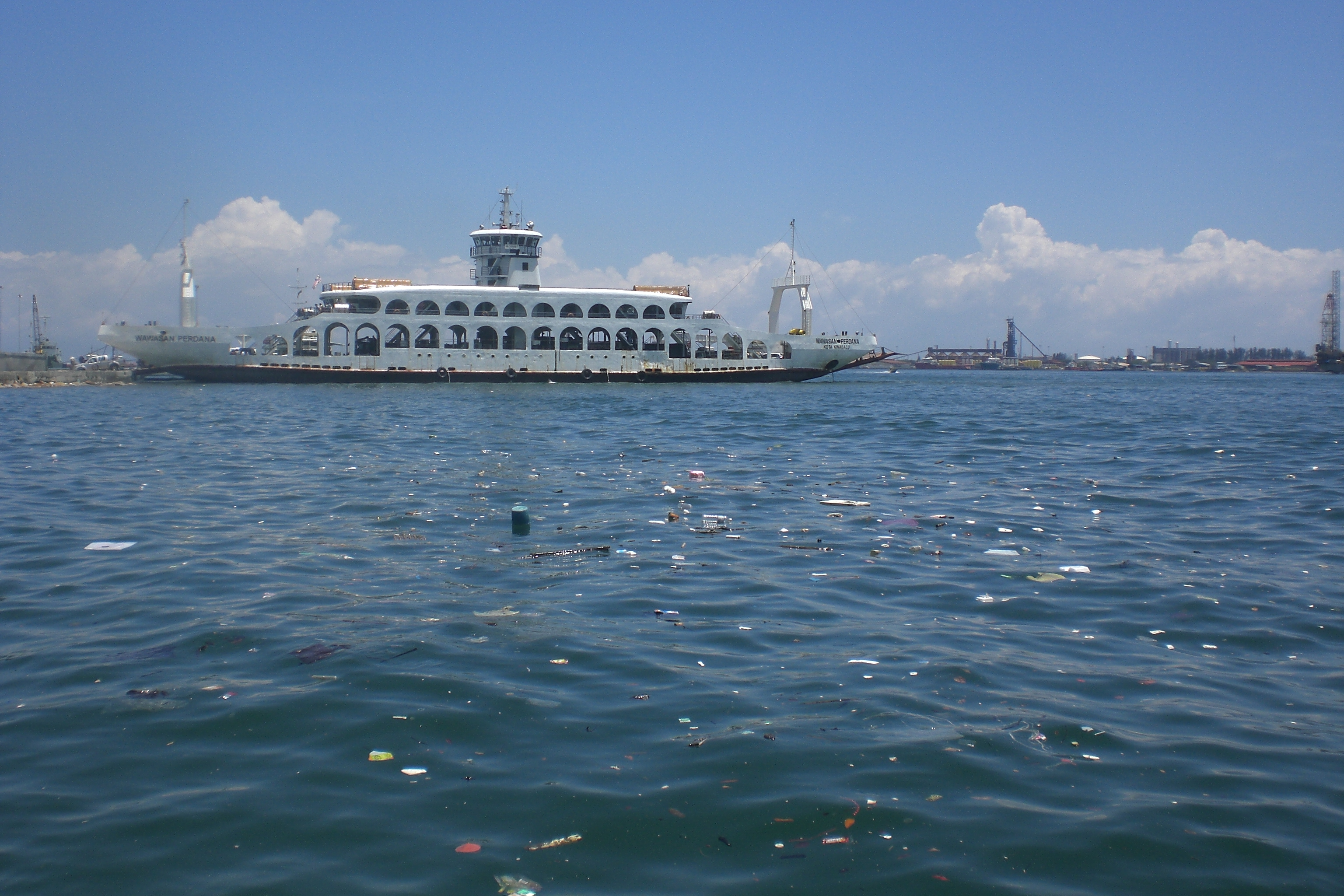 Ferry in Labuan, Malaysia